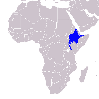 Tockus hemprichii - Distribution